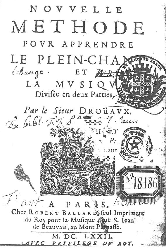 Title page of d'Estienne Drouaut, Nouvelle méthode de plain-chant et de musique, 1672.